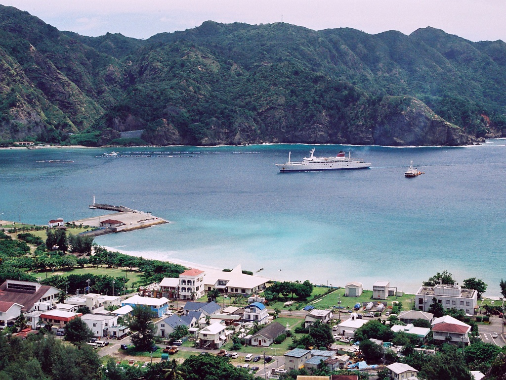 Ogasawara maru entering the Port of Futami, Chichijima Island, Ogasawara Village, Tokyo.